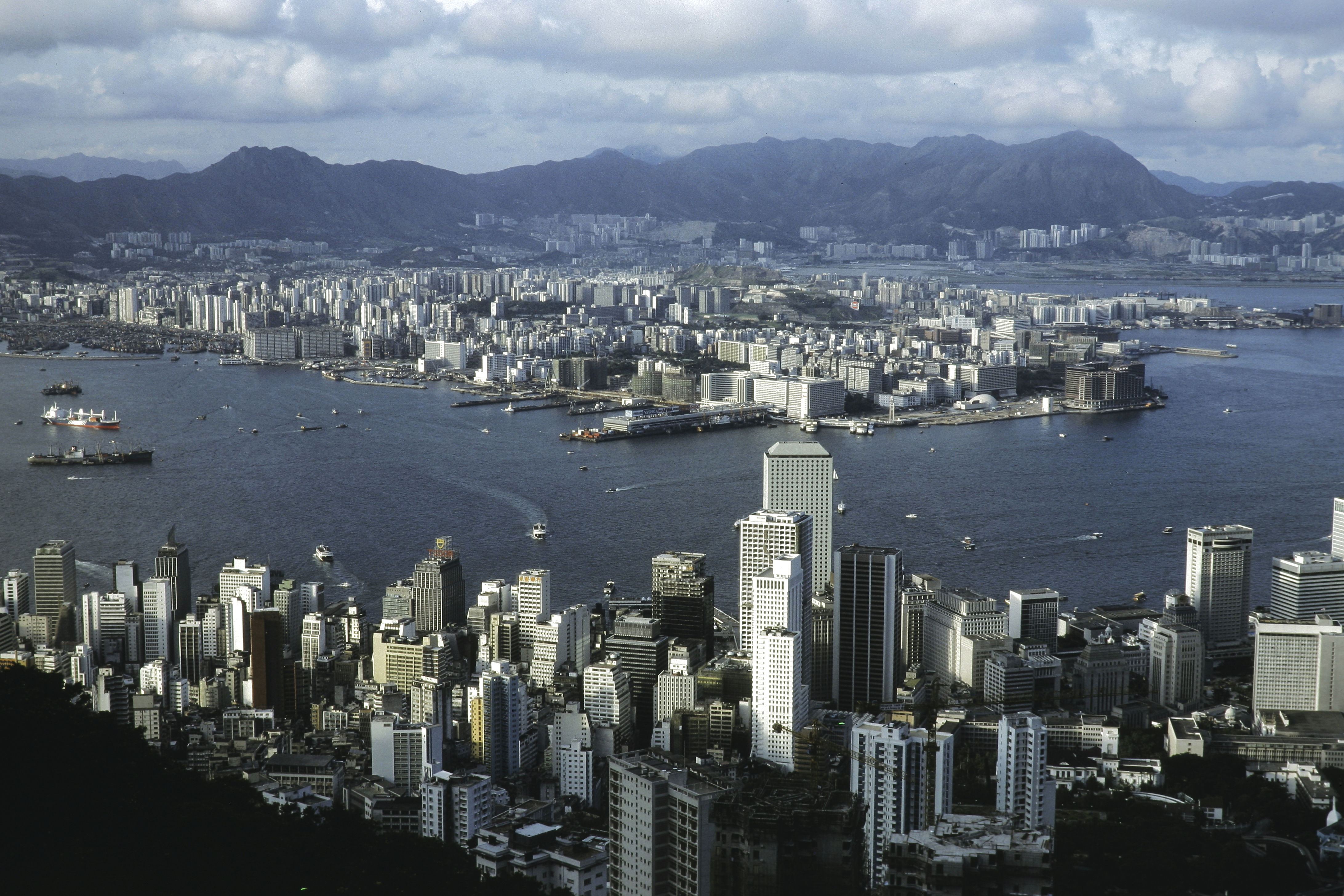 Hongkong 1980: View from the Peak over Central and Kowloon. Highest building in Central was Jardine building.